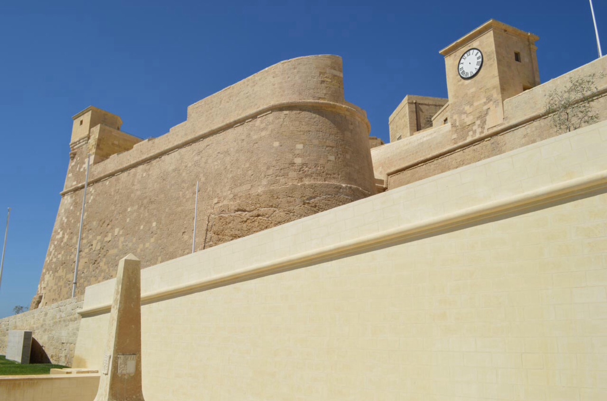 St Martin Demi-bastion - Citadel This media is about Maltese cultural property with inventory number 01464.